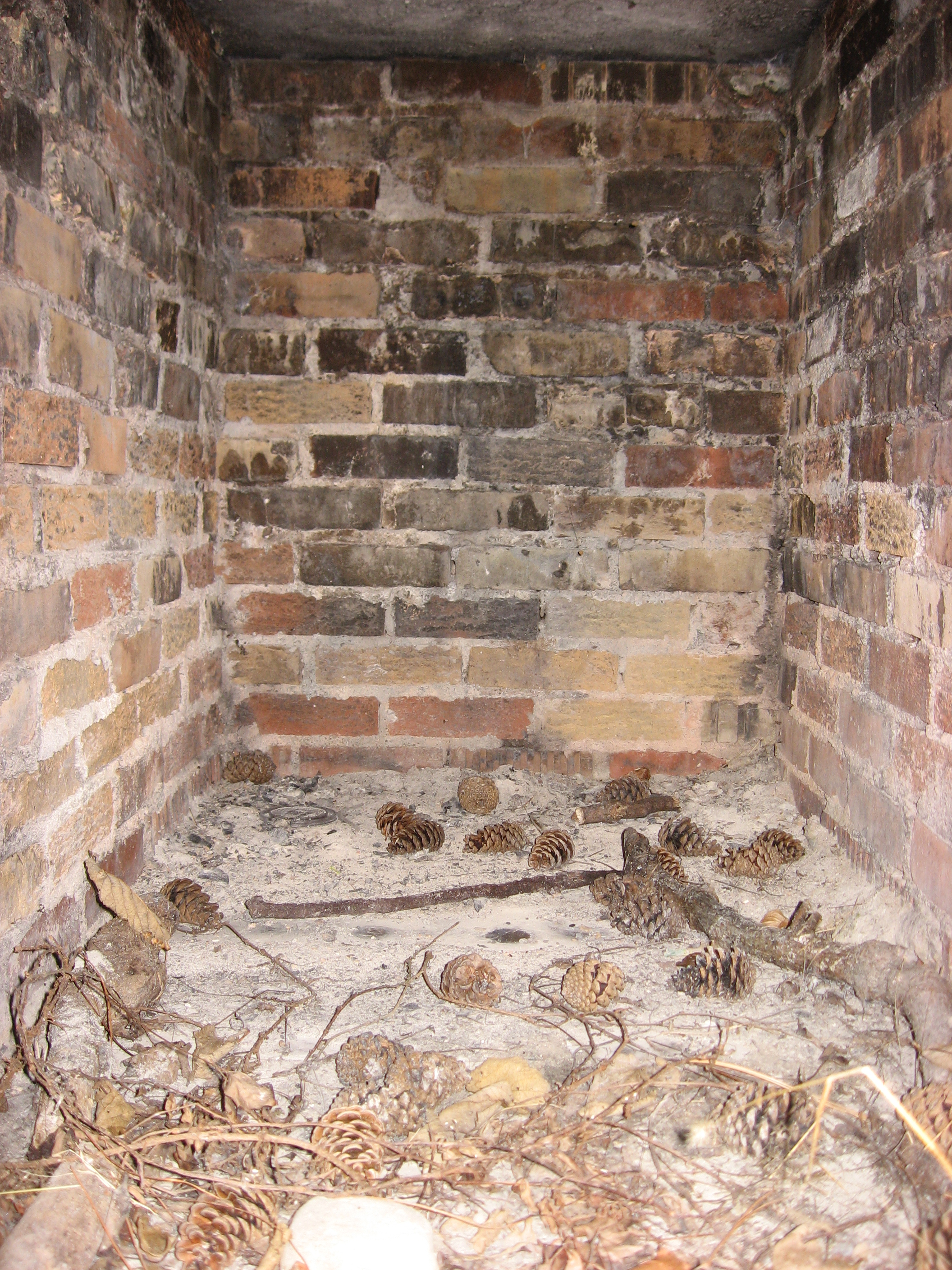 Interior of the outdoor oven at the David Crabill House, located above the western banks of the C.J. Brown Reservoir northeast of Springfield in Moorefield Township, Clark County, Ohio, United States. Located within Buck Creek State Park, the house was built in 1830; today, it is operated as a living history museum by the Clark County Historical Society, and it is listed on the National Register of Historic Places.